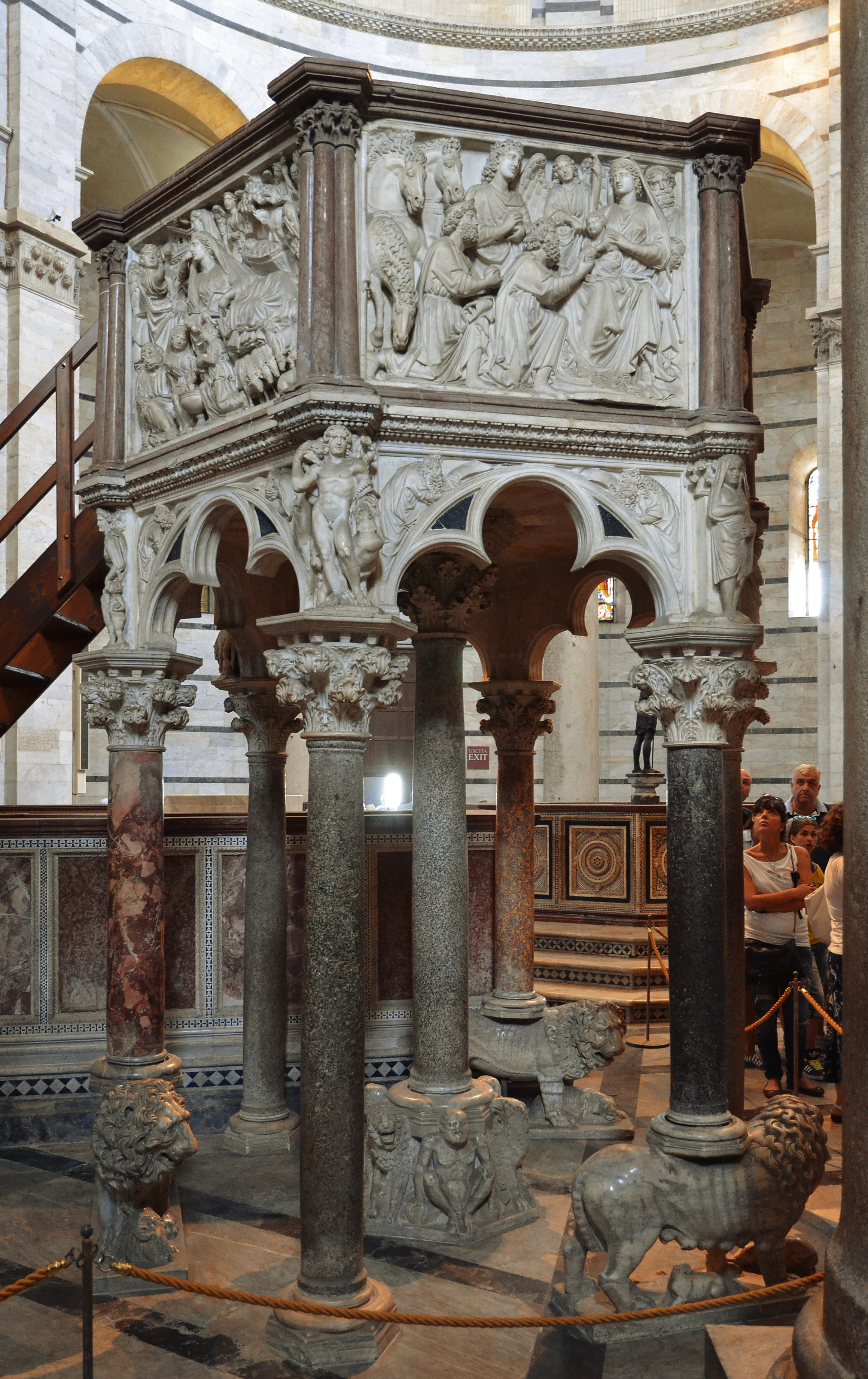 The pulpit in the Baptisterium in Pisa